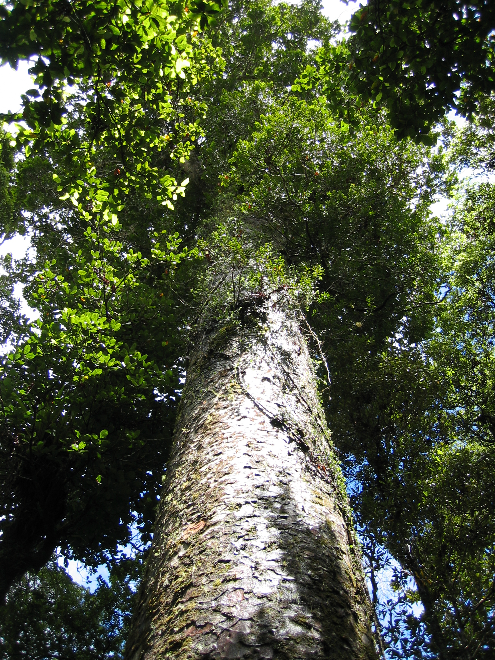 Kauri, Agathis australis, Waipoua Forest, New Zealand